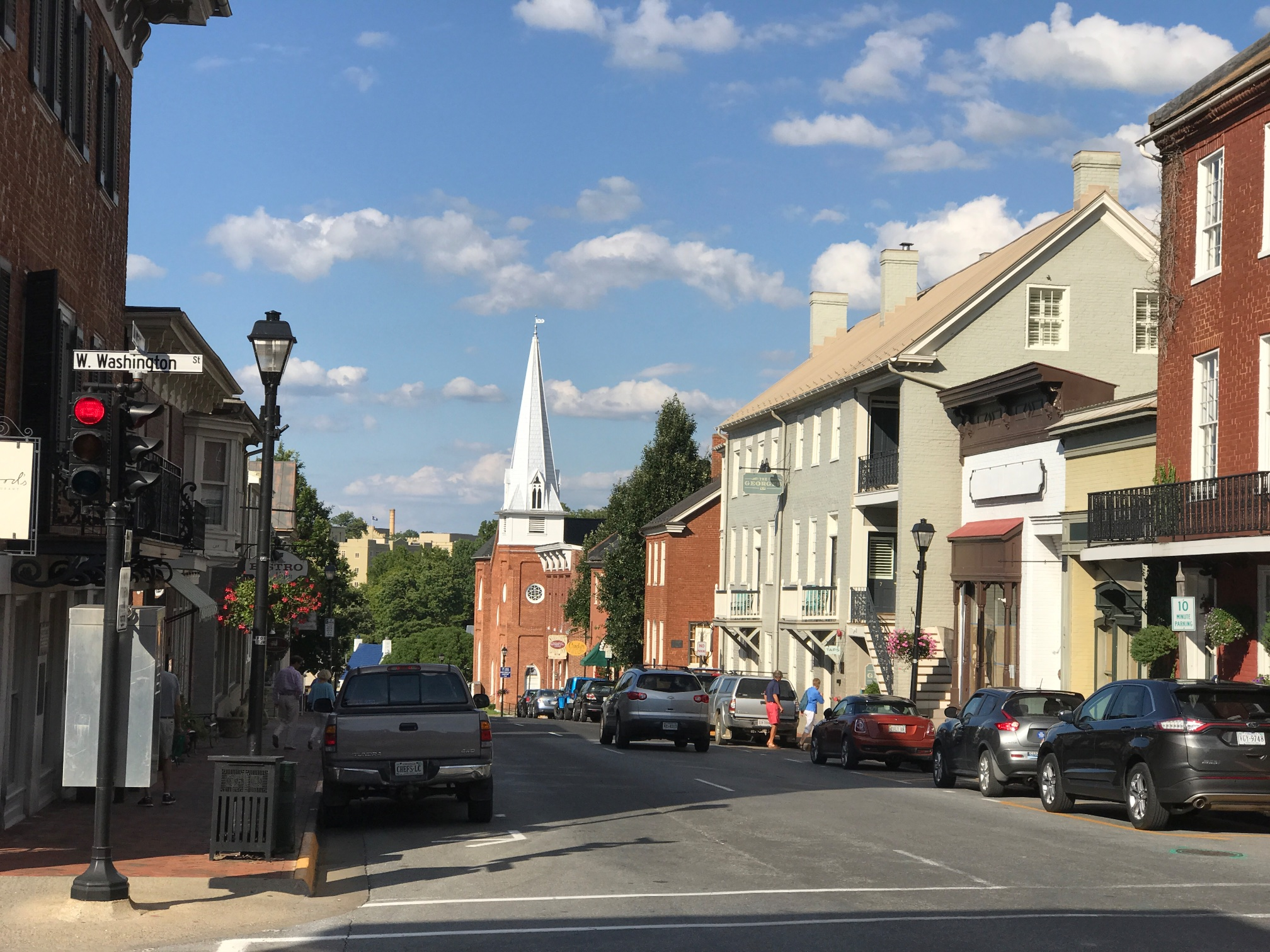 View of North Main Street, looking north, from the intersection with Washington Street in Lexington, Virginia. The Alexander-Withrow House is on the left and the First Baptist Church is in the center. The Dold Building is on the near right.